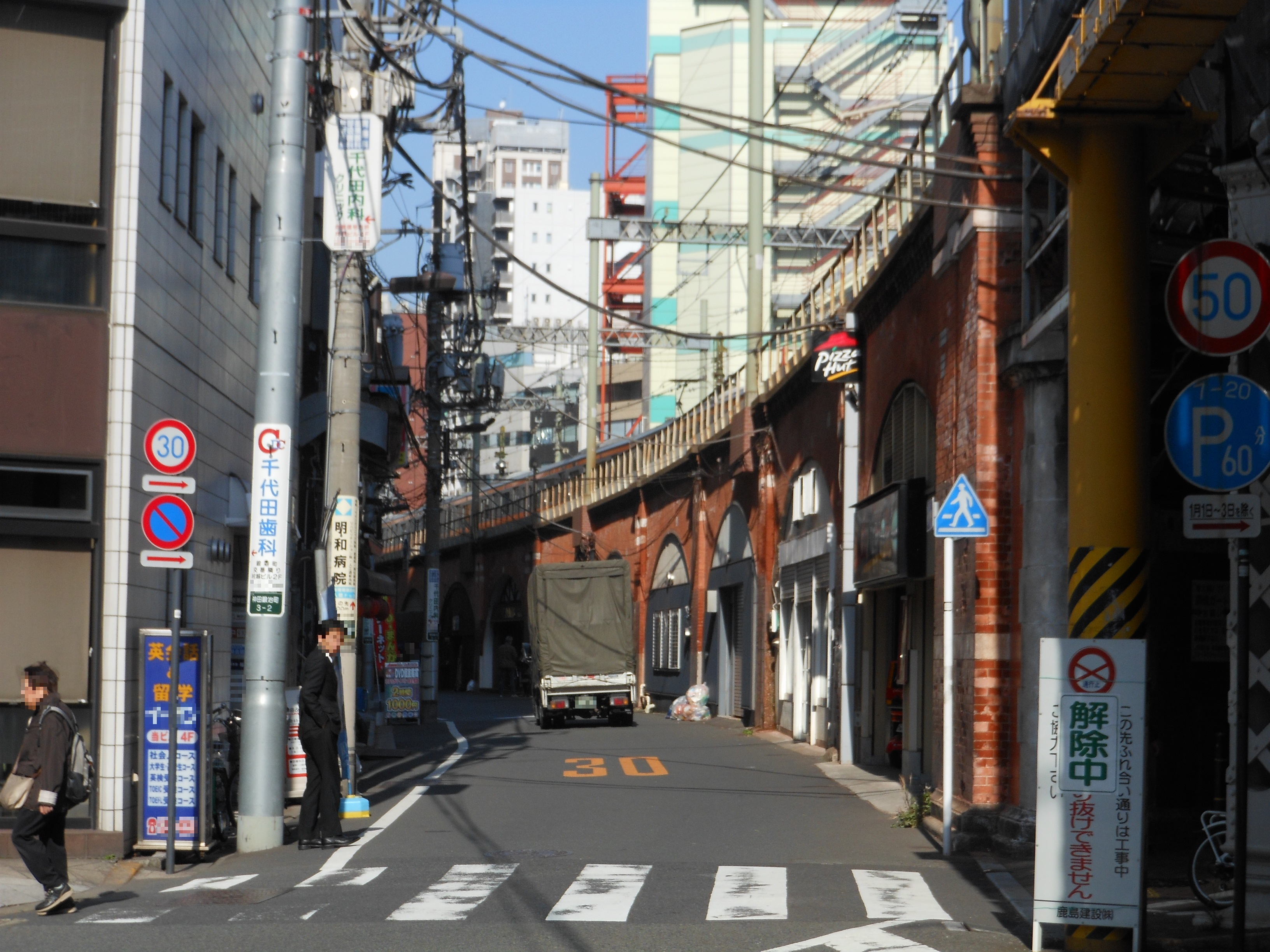 This is a landscape of Kandakajicho 3 chome, Chiyoda, Tokyo, Japan.